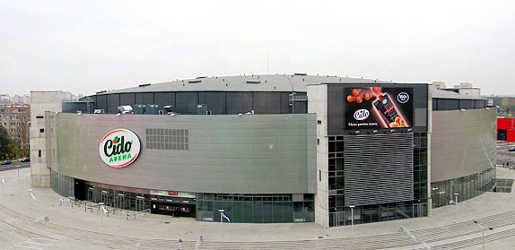 This is Panevėžys city arena